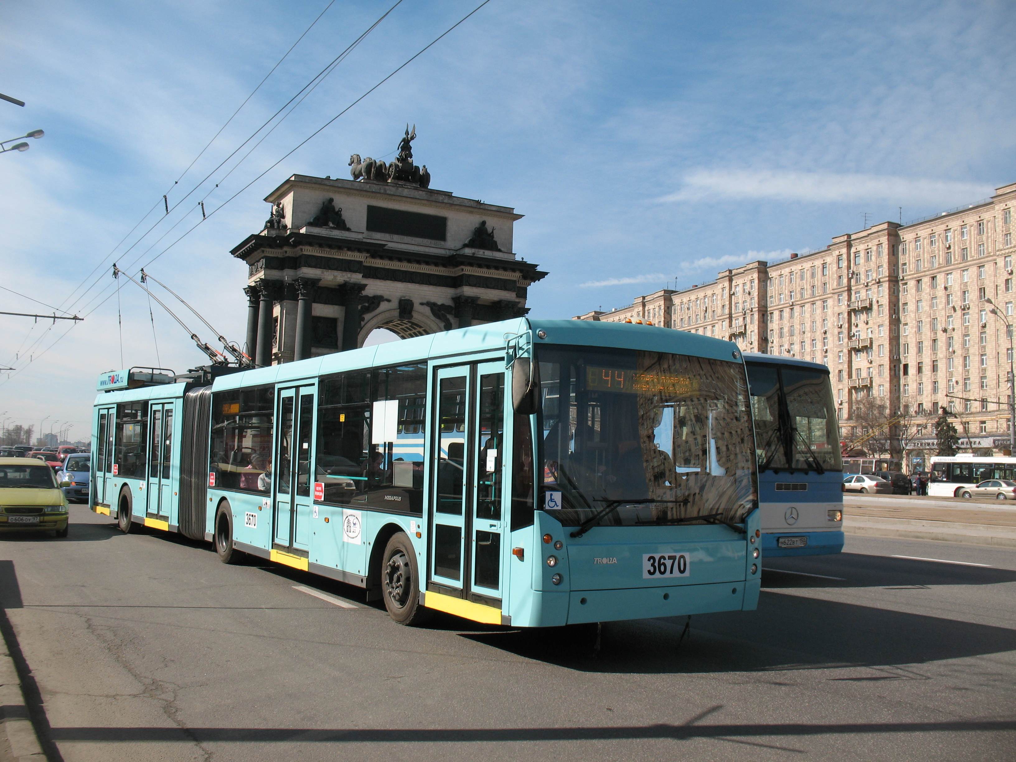 Moscow, trolleybus Trolza-6206 "Megapolis". Kutuzovskiy prospekt.